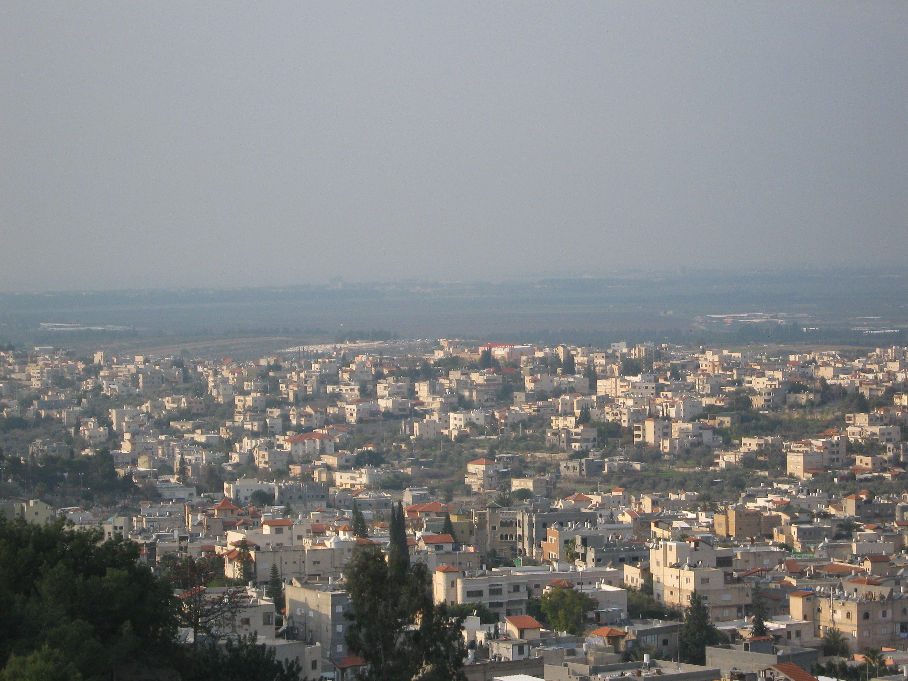 Shfaram North West, Cities in Israel